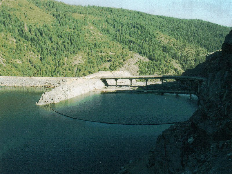 Lower Hellhole Dam, concrete, rebuilt 1966